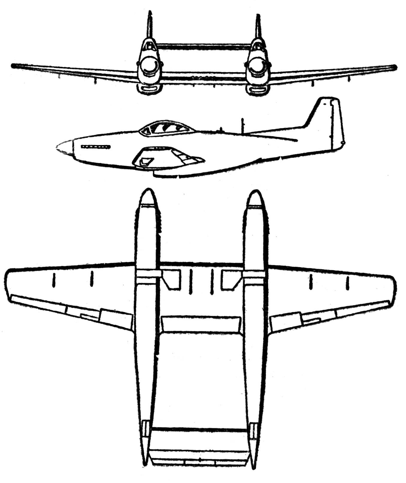 North American F-82 3-view drawing from Les Ailes January 18, 1947